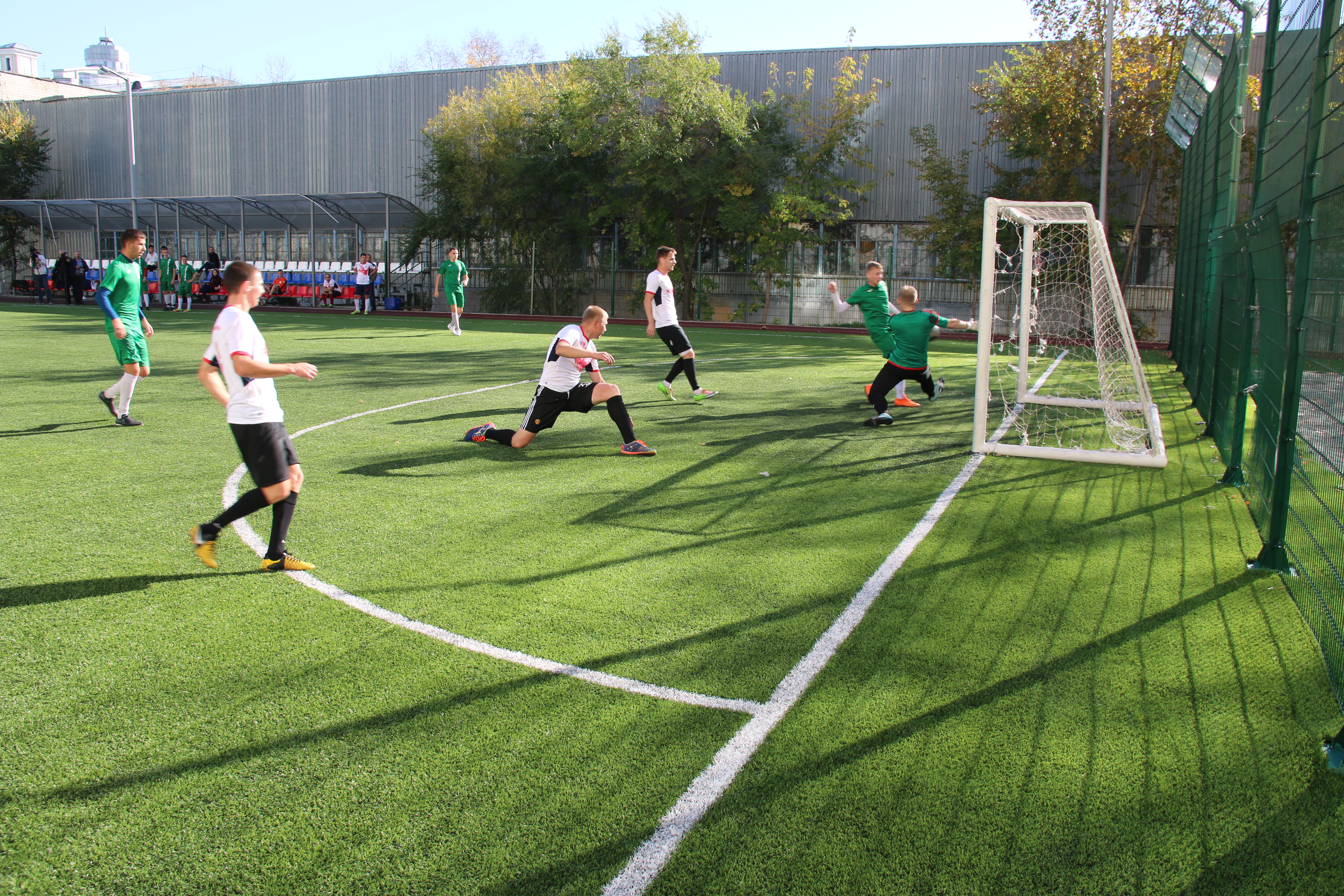 Football match in FESTU